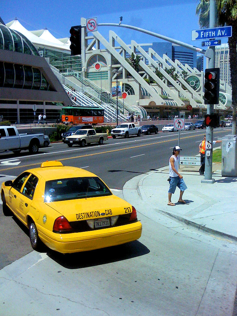 San Diego Convention Center